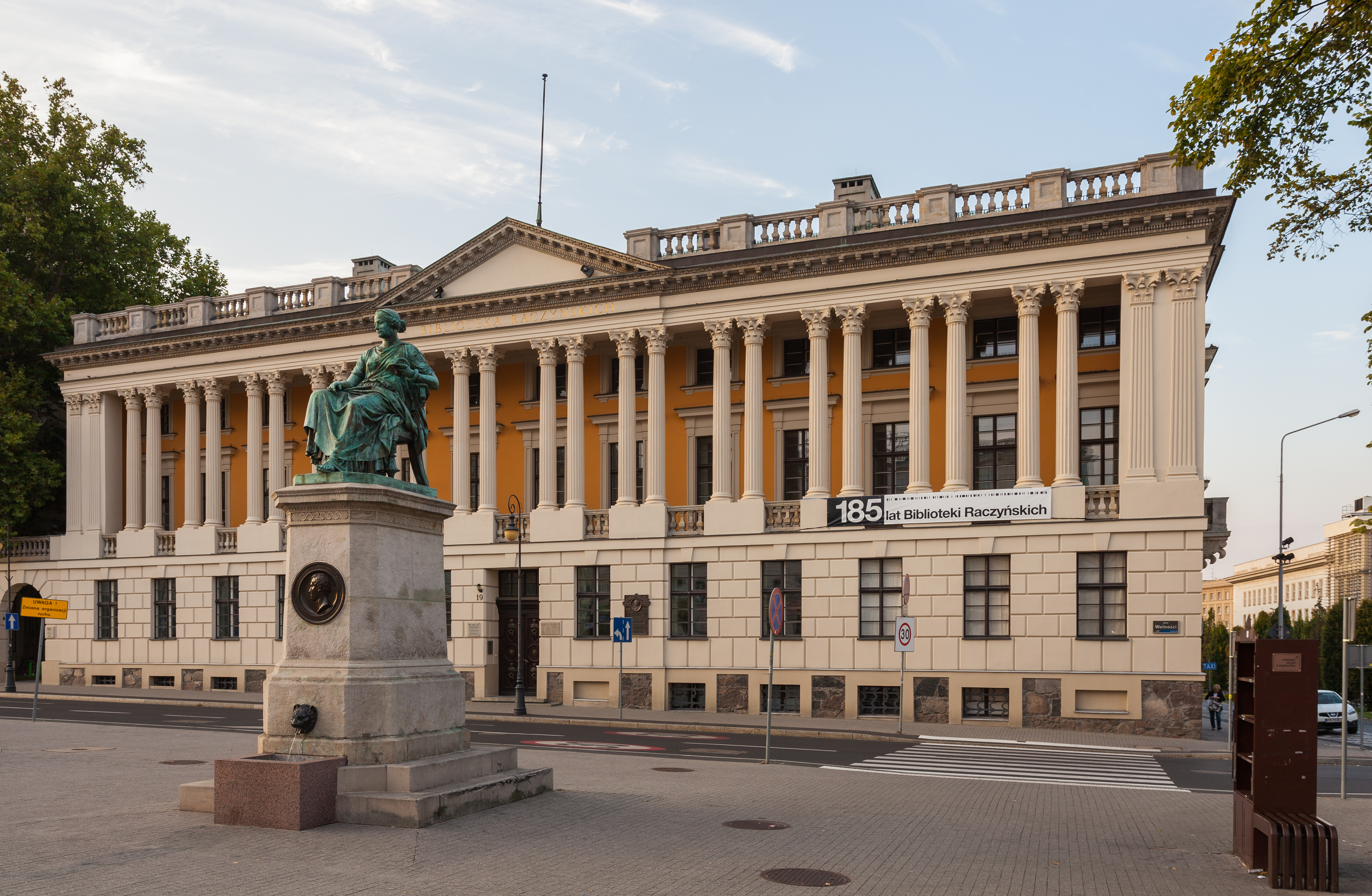 Raczynski library, Poznan, Poland